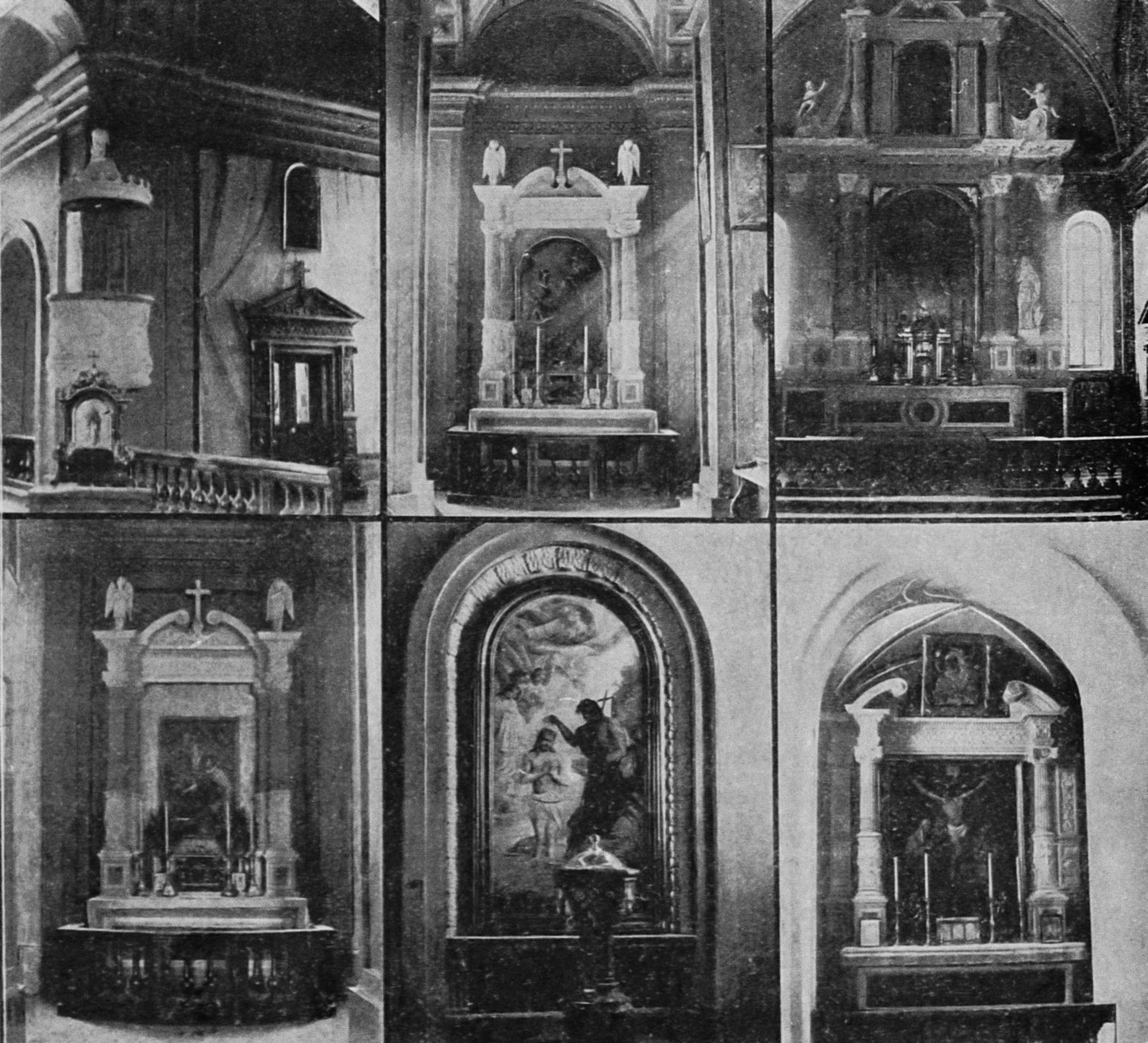 Lepiel - catholic church of St. Casimir